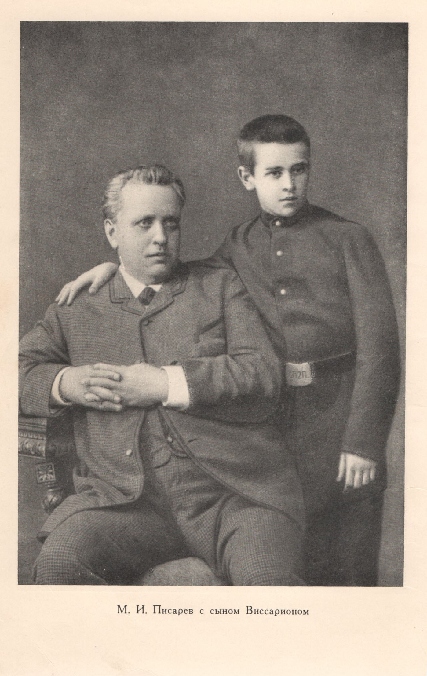 Portrait of Russian actor of the 19th century Modest Pisarev with his son Vissarion